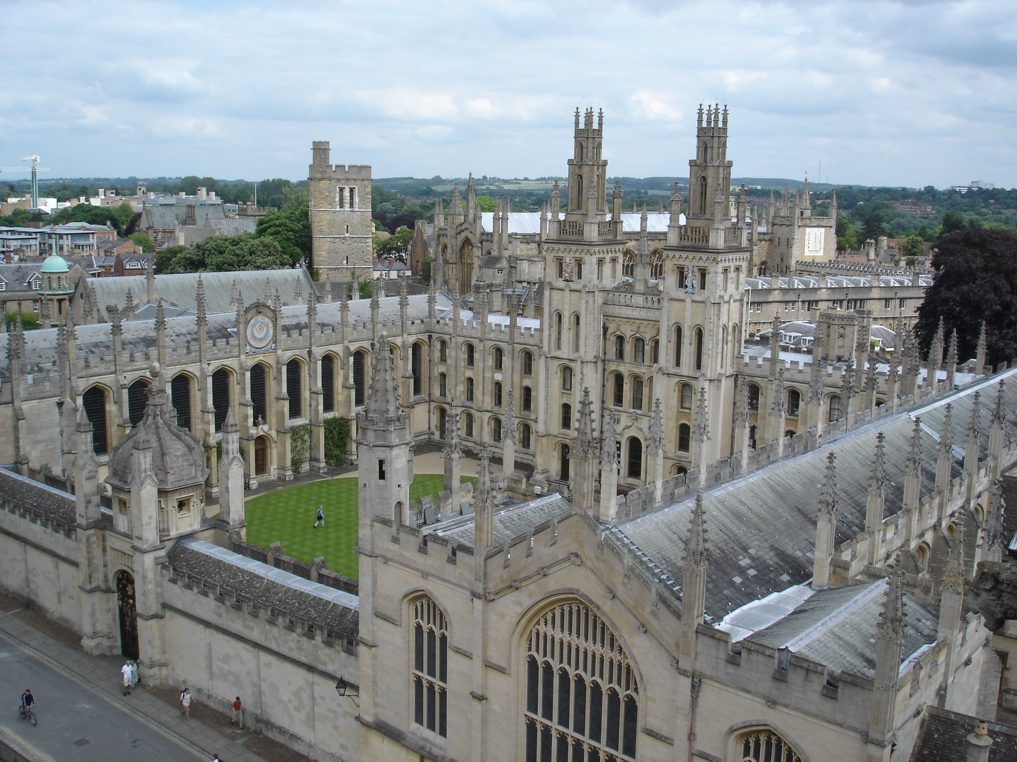 All Souls College (from the tower of the University Church)